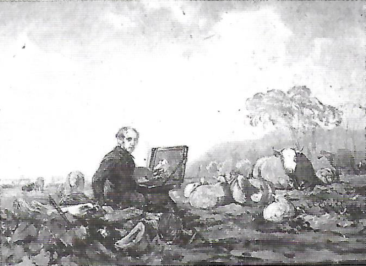 Selfportrait,_study,_1849